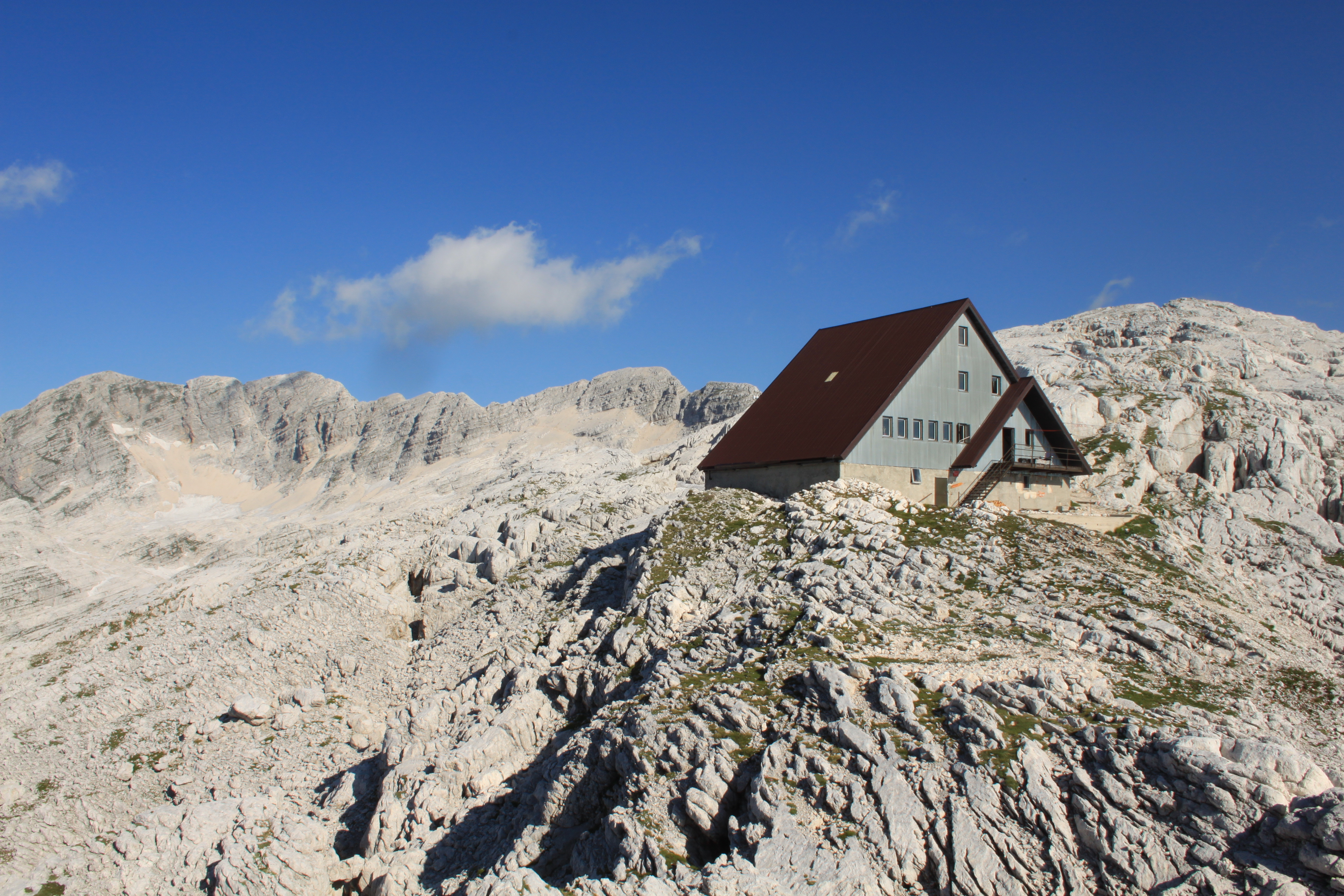 Peter Skalar alpine hut on Kanin / M. Canin